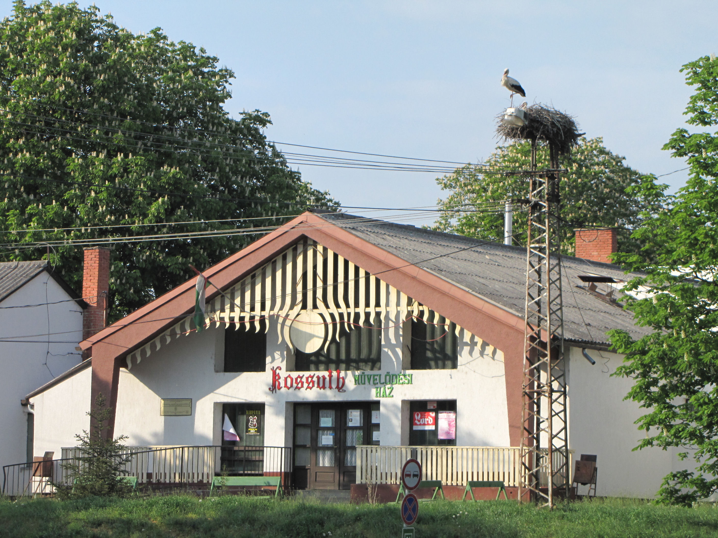 Előszállás, Lajos Kossuth Cultural Centre.